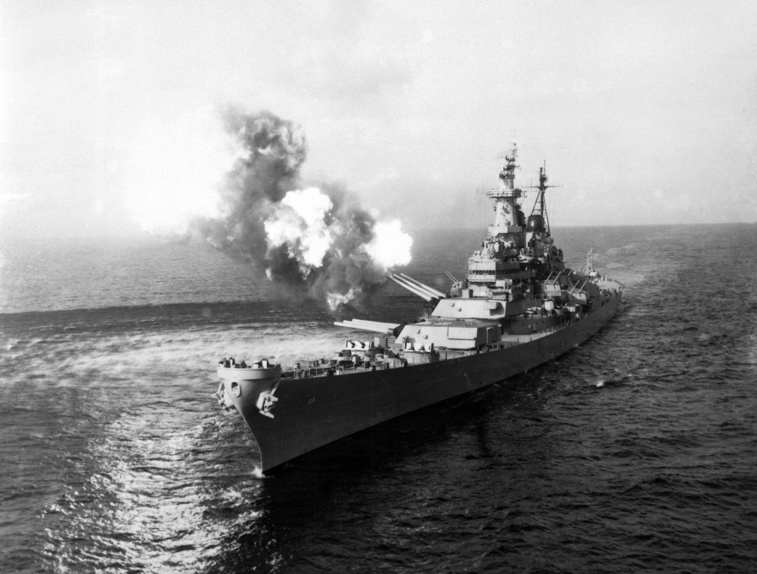 A 16-inch salvo from the USS Missouri at Chong Jin, Korea, in effort to cut Northern Korean communications. Chong Jin is only 39 miles from the border of China. October 21, 1950. (Navy) NARA FILE #: 080-G-421049 U.S. Army official Korean War image archive